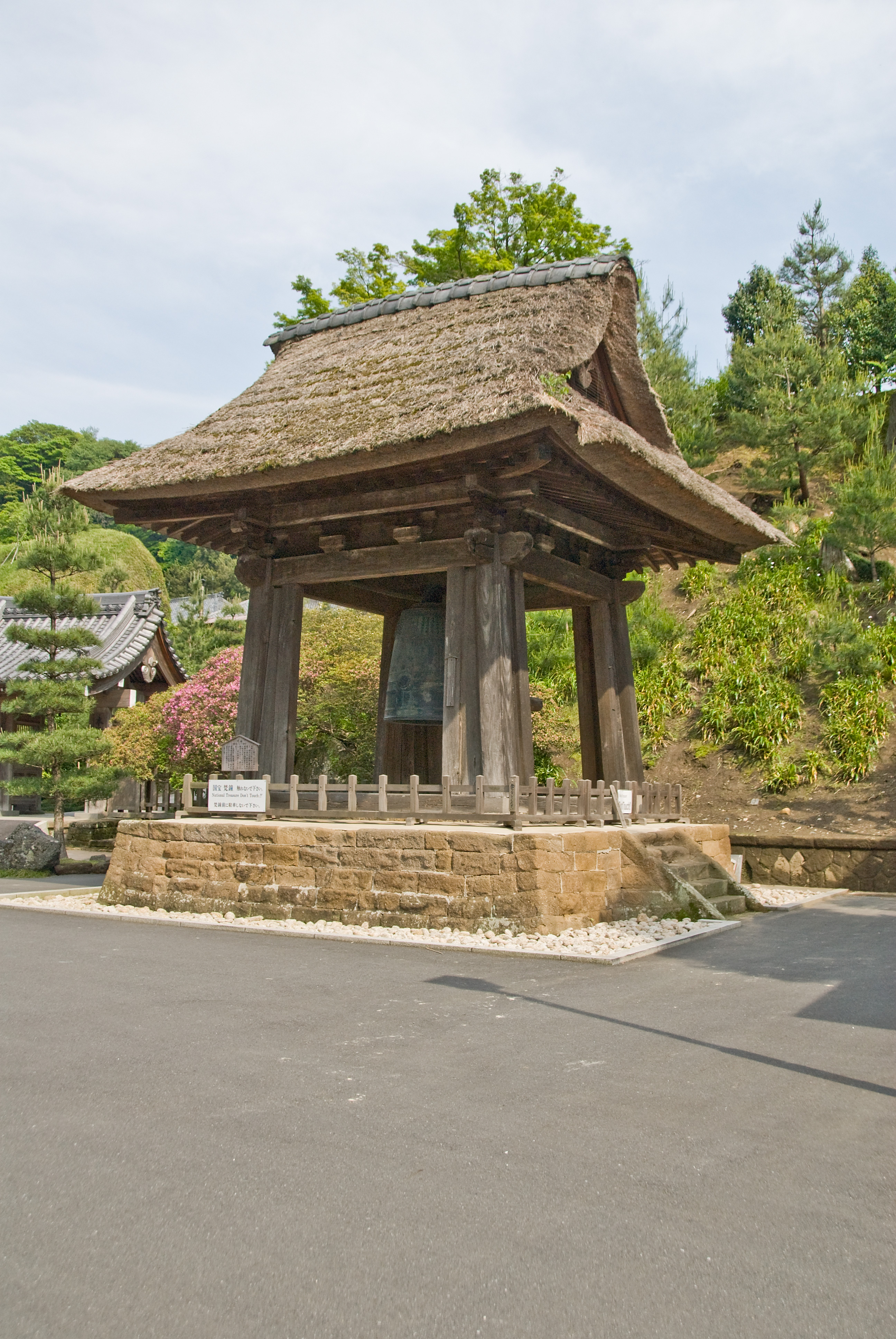 Kencho-ji, Kamakura. The bell, a national treasure